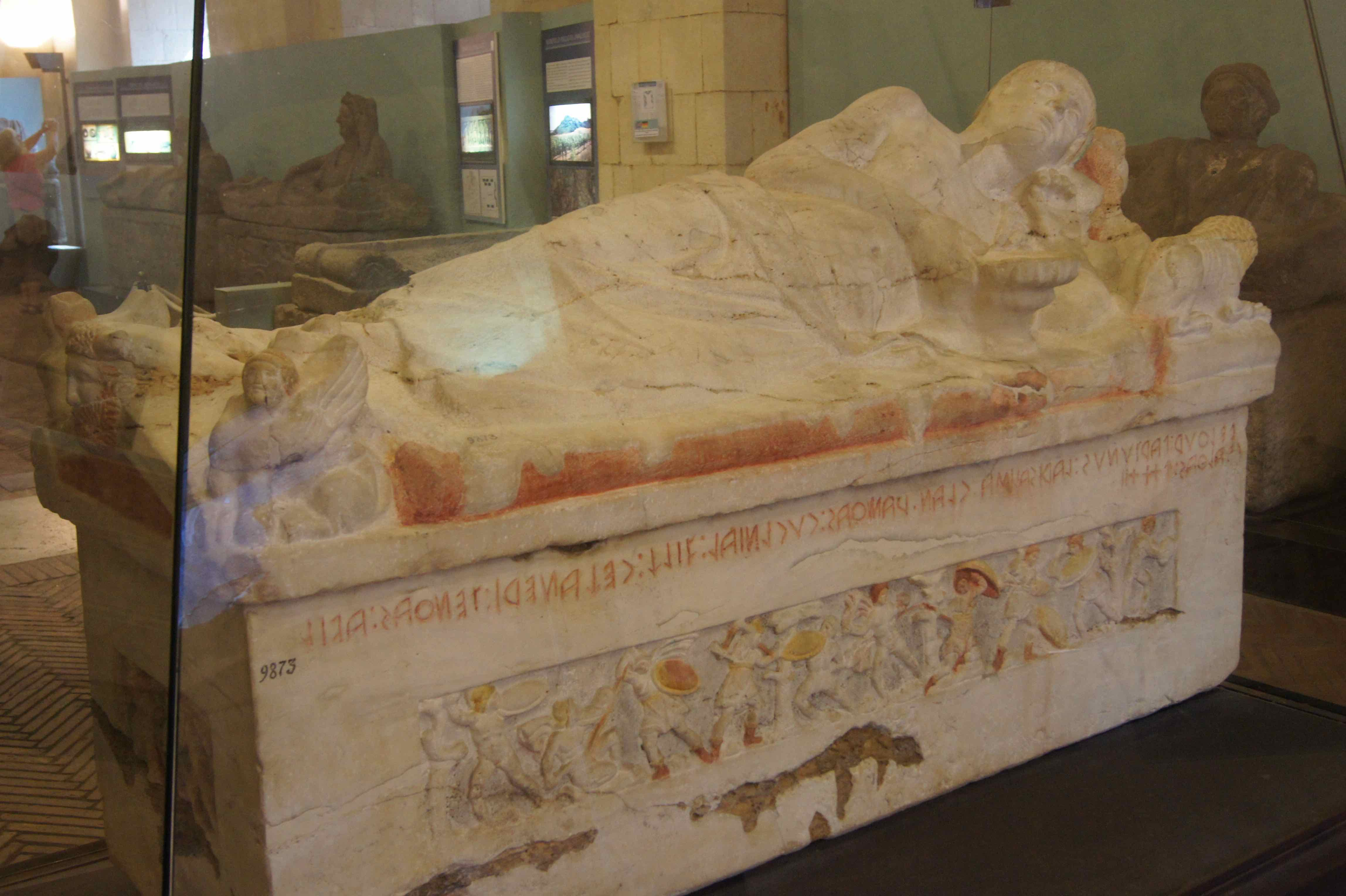 Sarcofagus